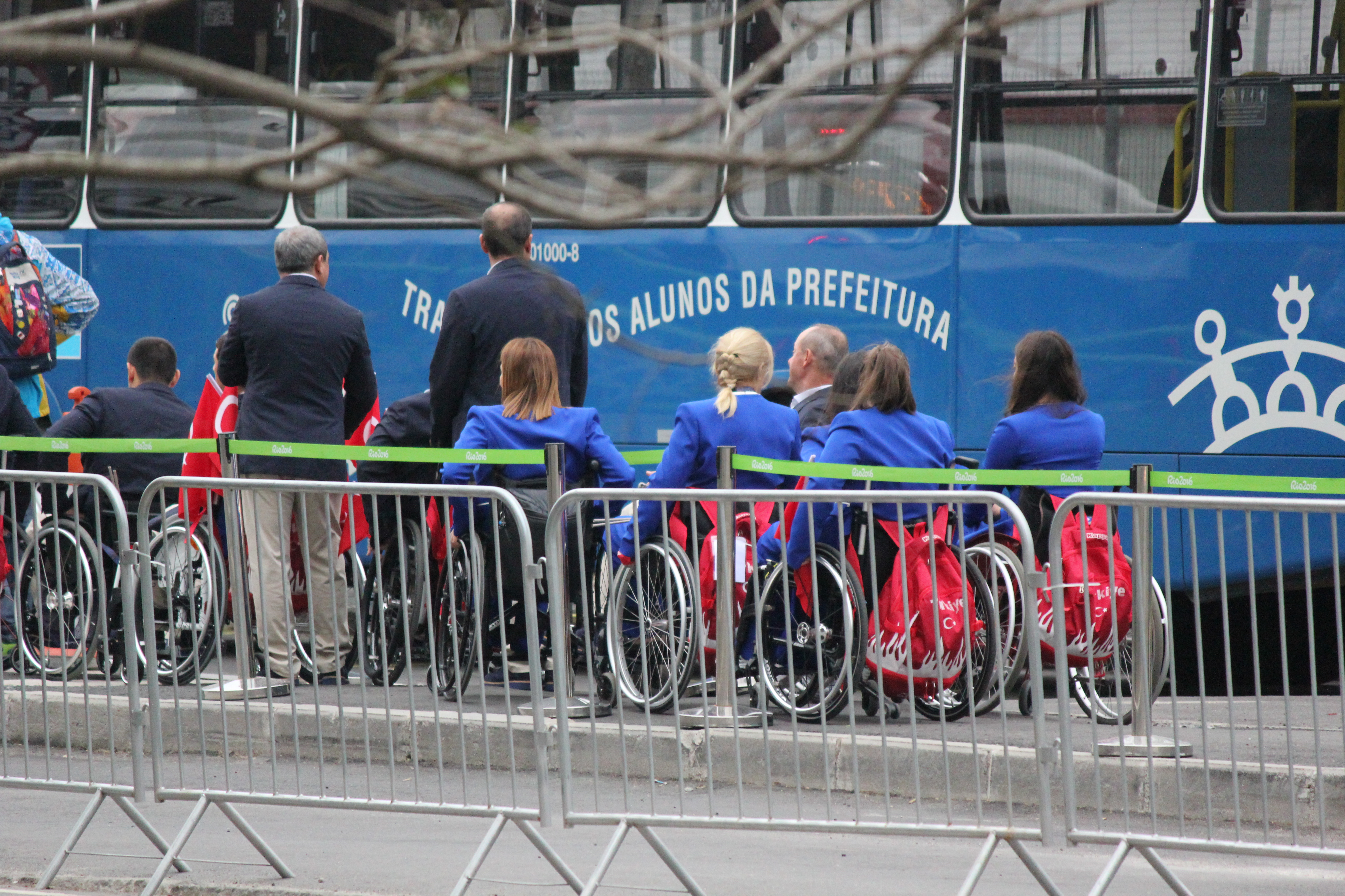 Turkey during open ceremony games load period outside Paralympic Village.